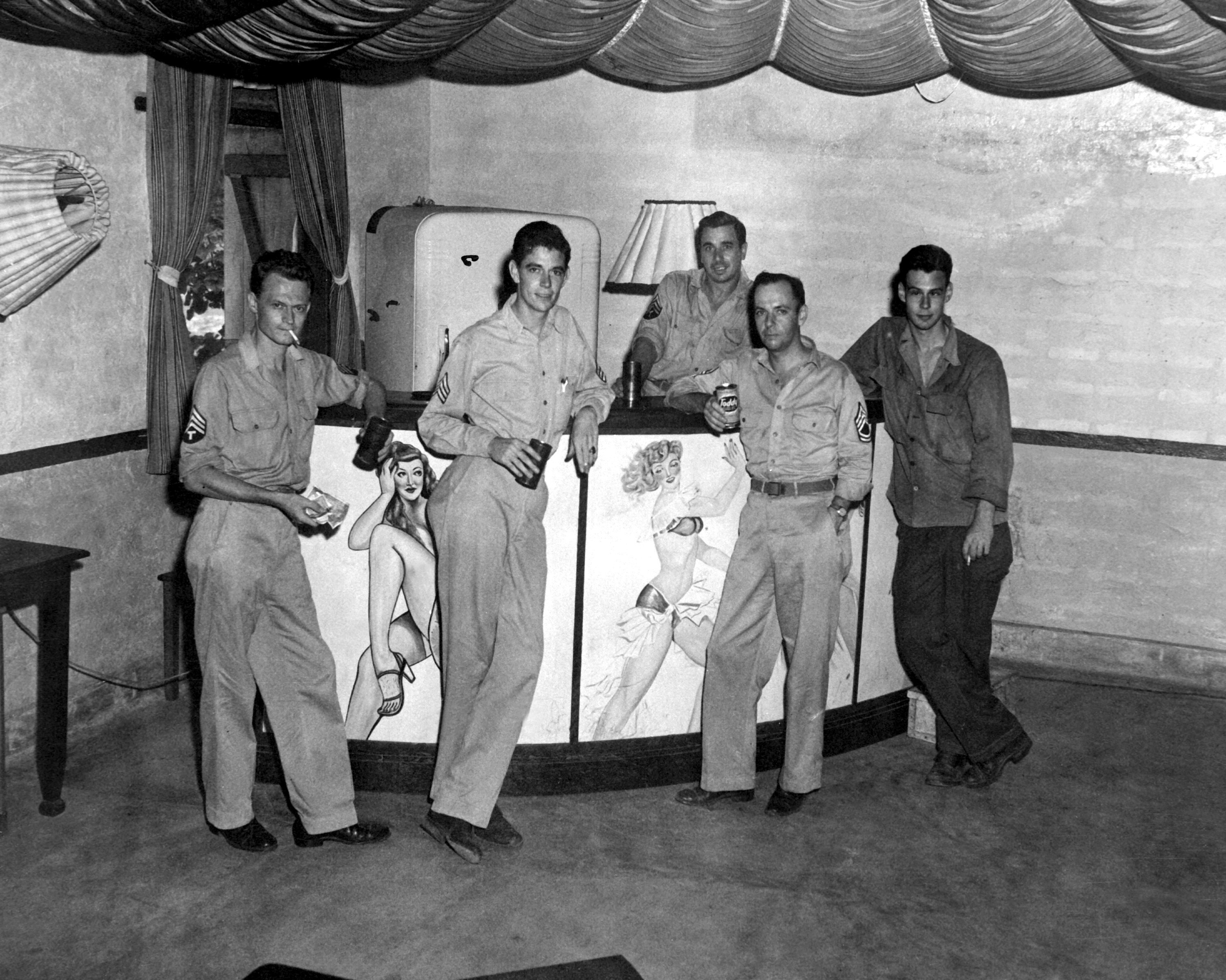 Personnel of OSS camp in Ceylon. NARA FILE #: 226-FPK-22-11 WAR & CONFLICT BOOK #: 892. ID: HD-SN-99-02551